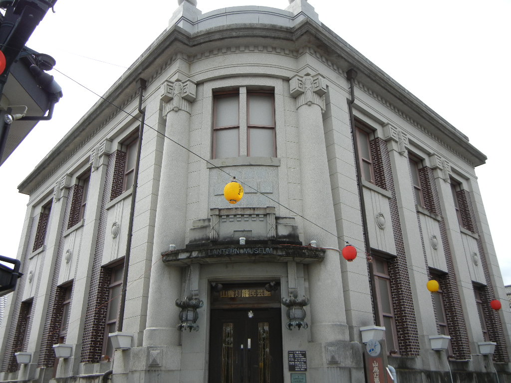 Yamaga-Lantern-Museum (Former Yasuda Bank Yamaga Branch), Yamaga, Kumamoto prefecture